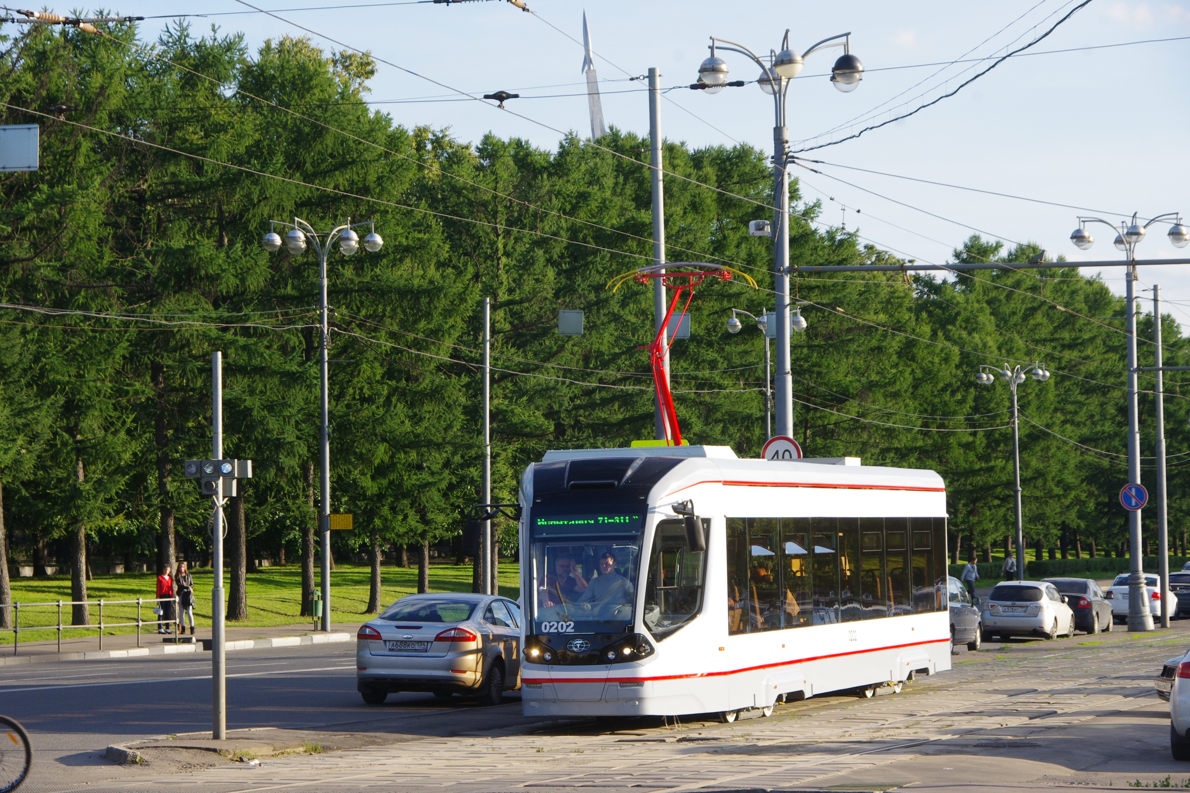 New short low-floor tram PK TRANSPORTNYE SYSTEMY 71-911 0201 testing in Moscow. Seen at 2-nd day of test runs. The stuff much hurry, because they testing a tram at sunday evening.